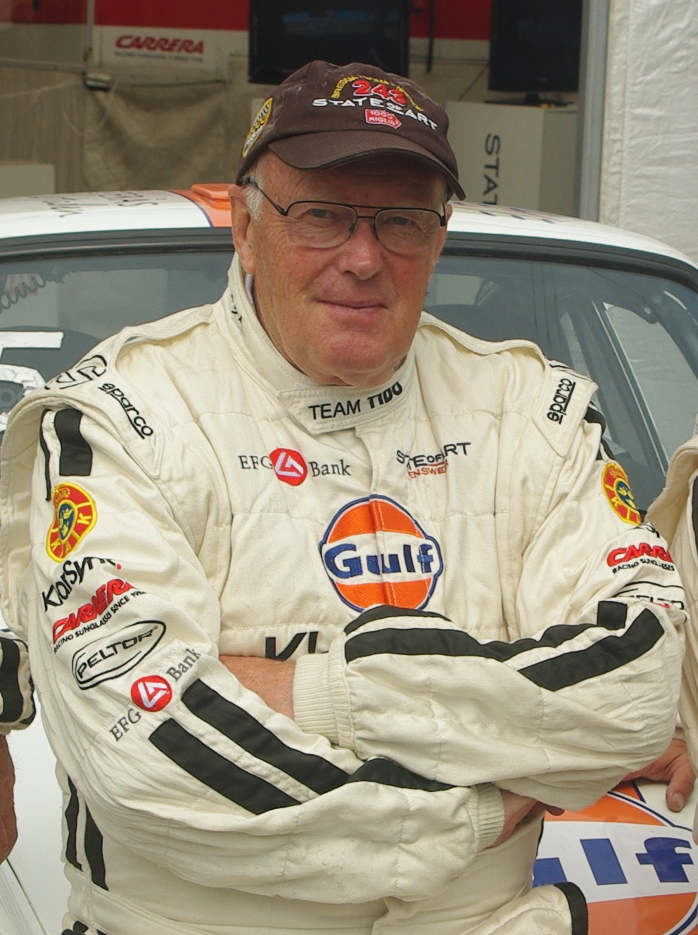 Swedish rally legend and world champion Björn Waldegård (1943-2014), at the 2011 Rally of the Midnight Sun in Sweden.